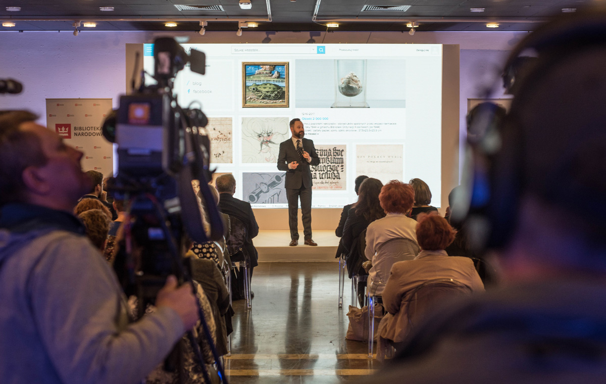 Tomasz Makowski, Director General of the National Library of Poland launching Polona/2million